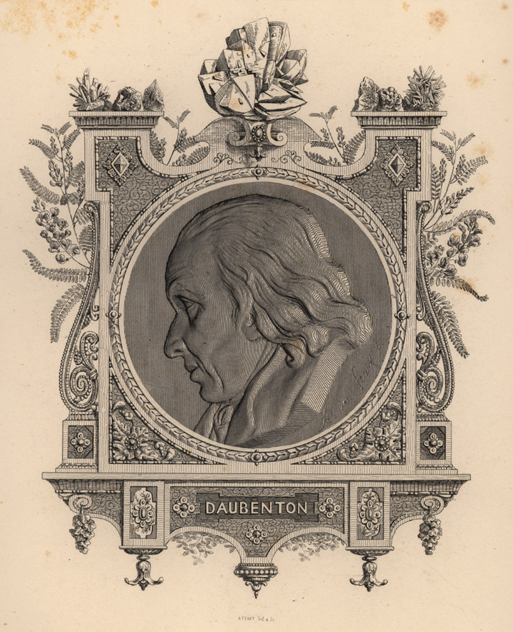 Portrait of Daubenton (1716-1799), French naturalist